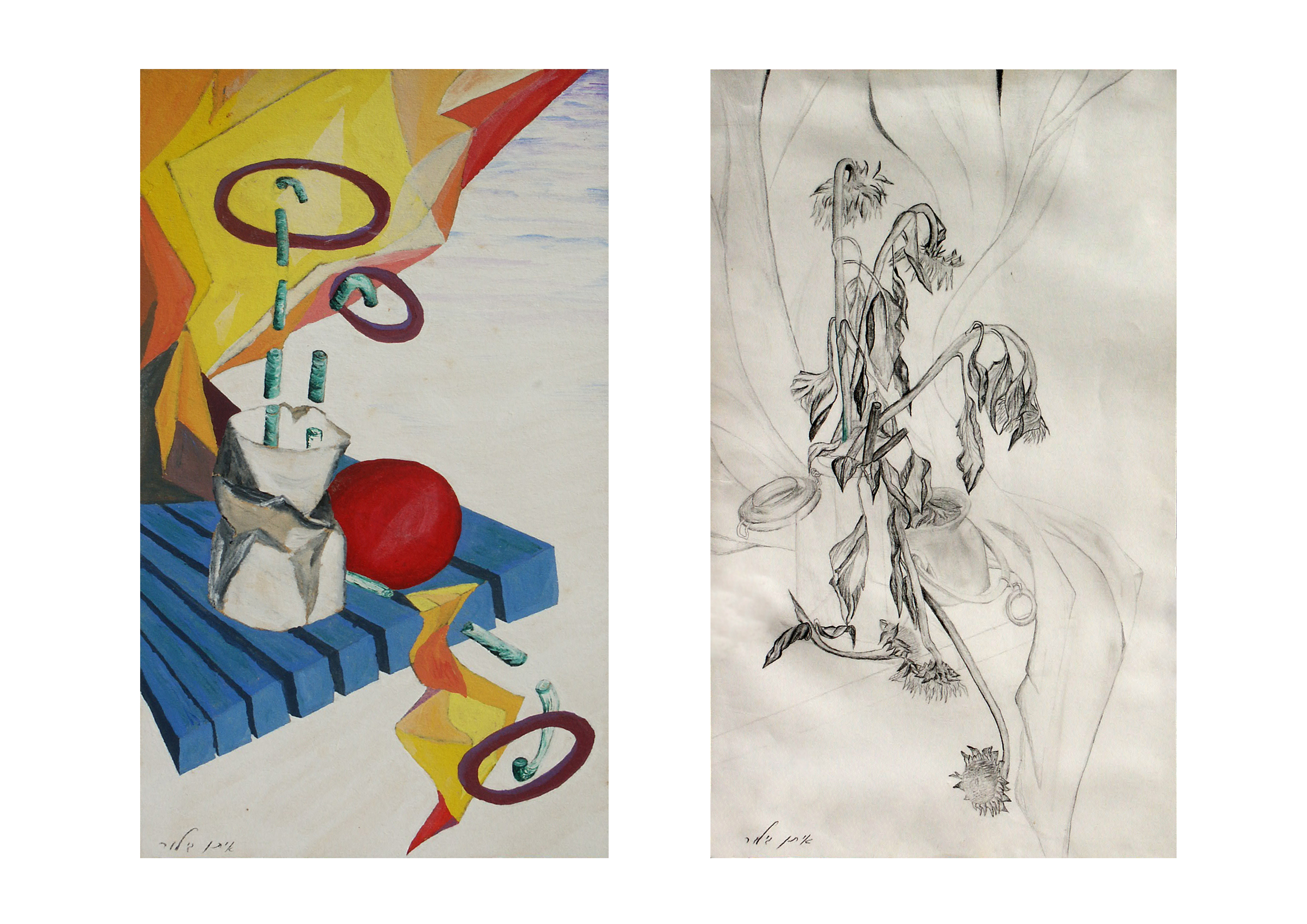 The painting on the left is an abstract version of the one on the right